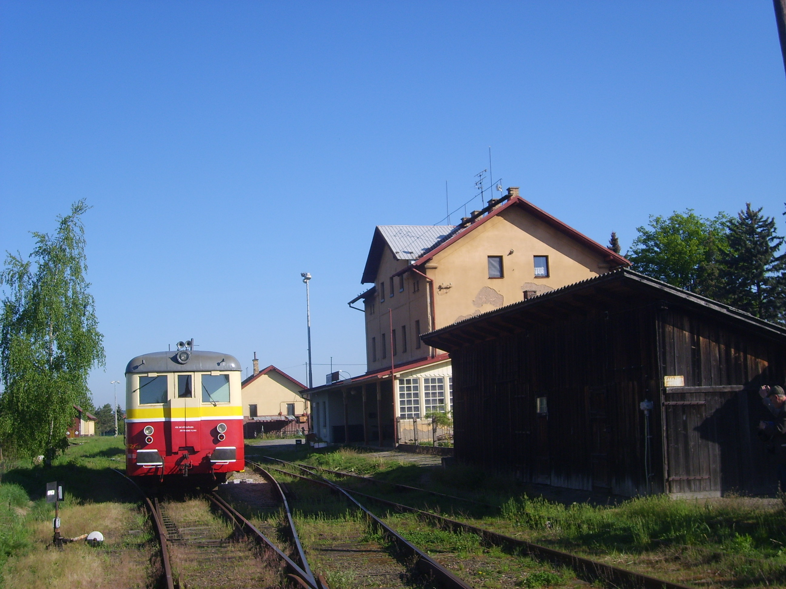 Historical diesel railcar M262.1183 of KŽC Doprava in Dobruška, a terminus of a secondary line from Opočno.